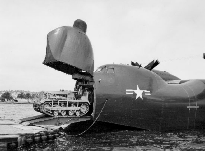 A Convair R3Y-2 Tradewind loading a tractor in 1954.